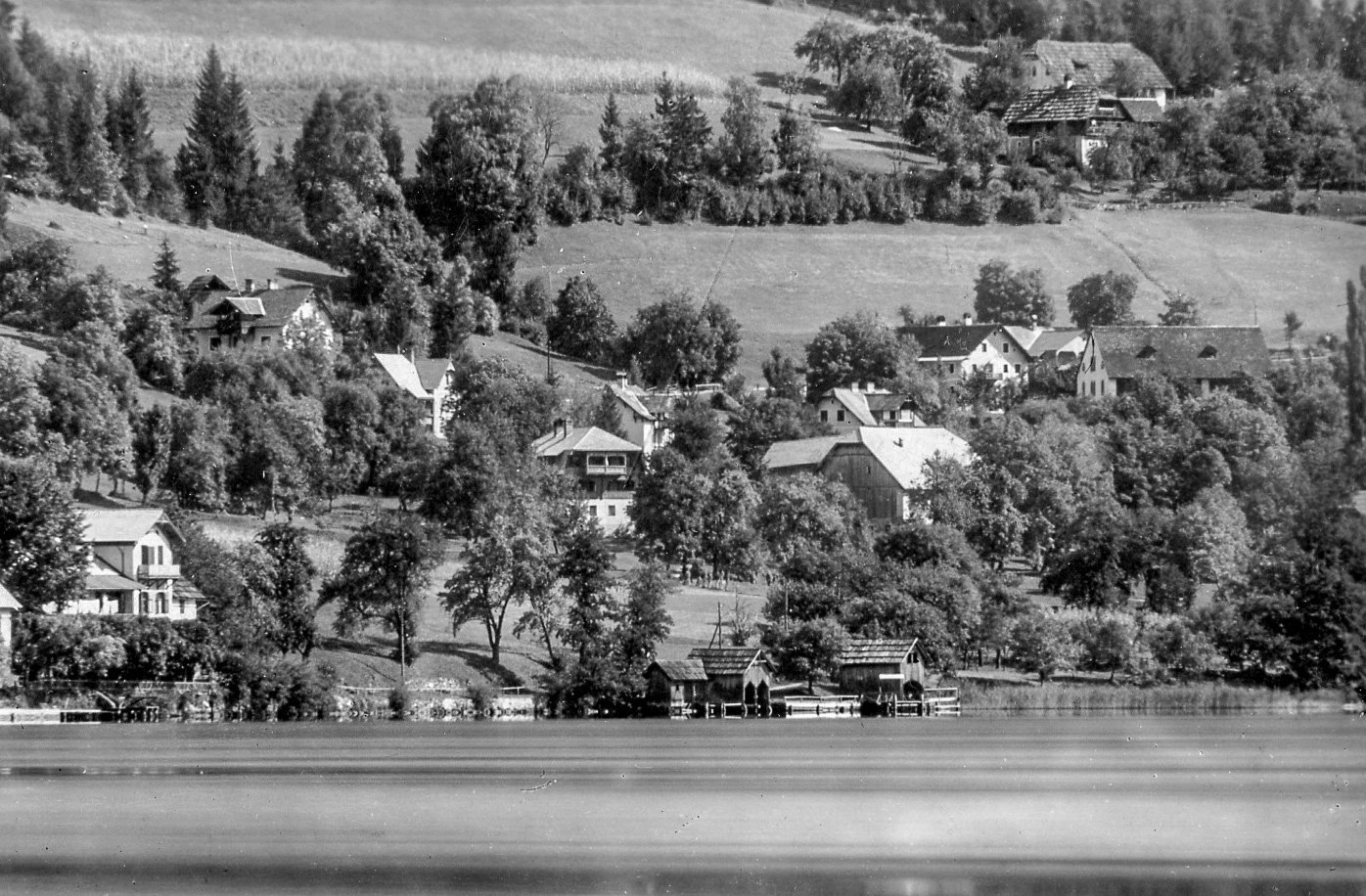 Center of Dellach in the community Millstatt (Millstätter See), district Spittal an der Drau in Carinthia / Austria / European Union.